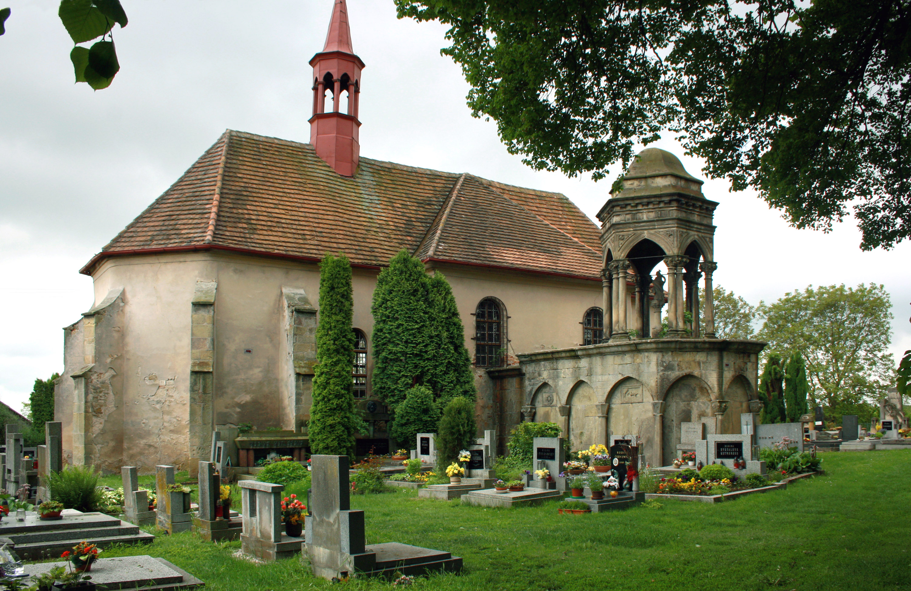 Church in Drahoraz, part of Kopidlno, Czech Republic